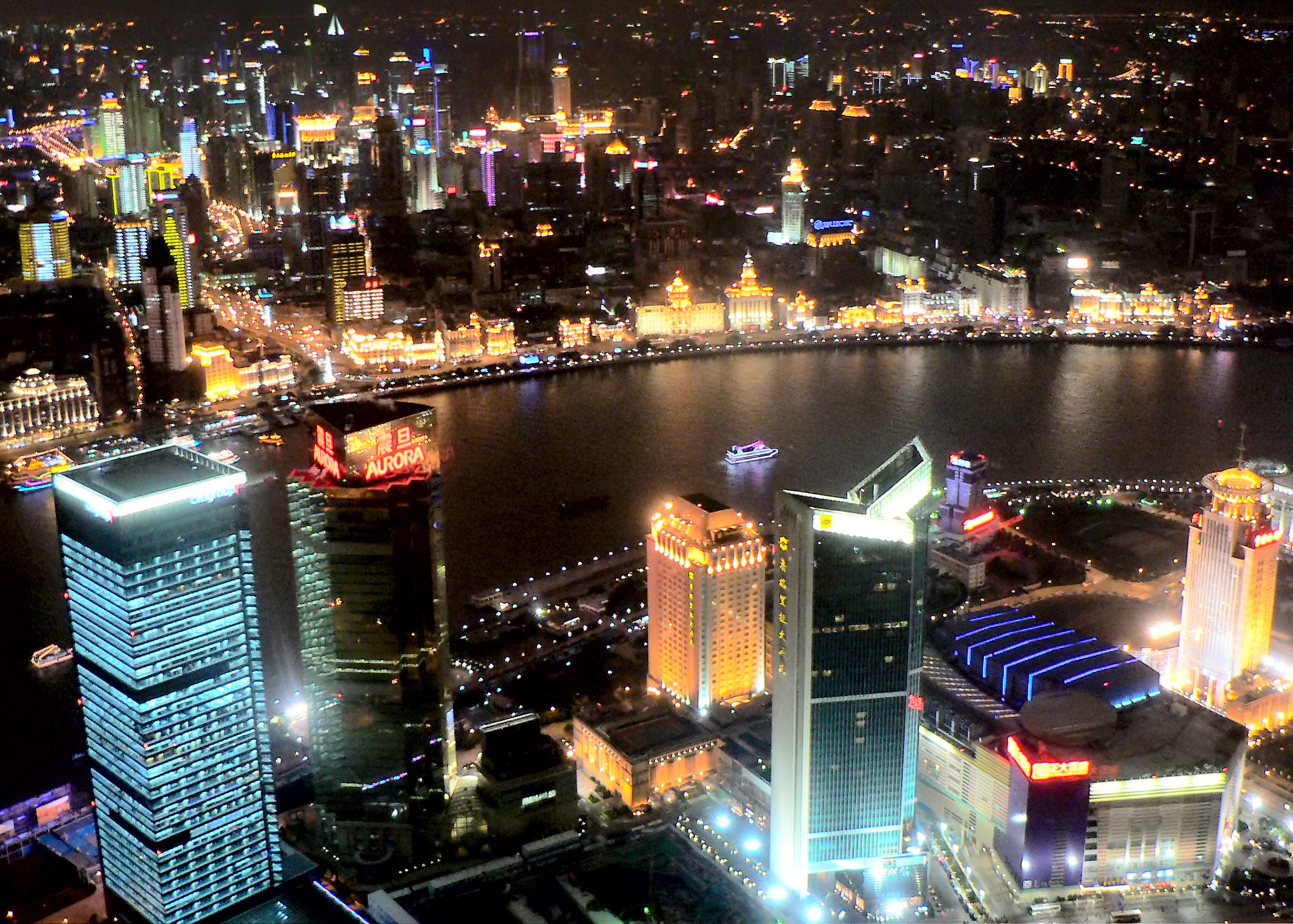 Night view of Shanghai, China